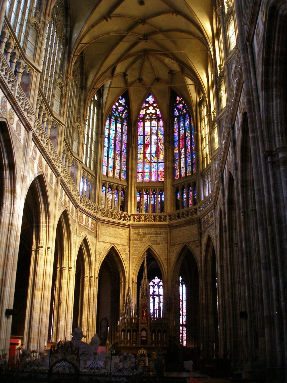 St. Vitus Cathedral in Prague, Bohemia